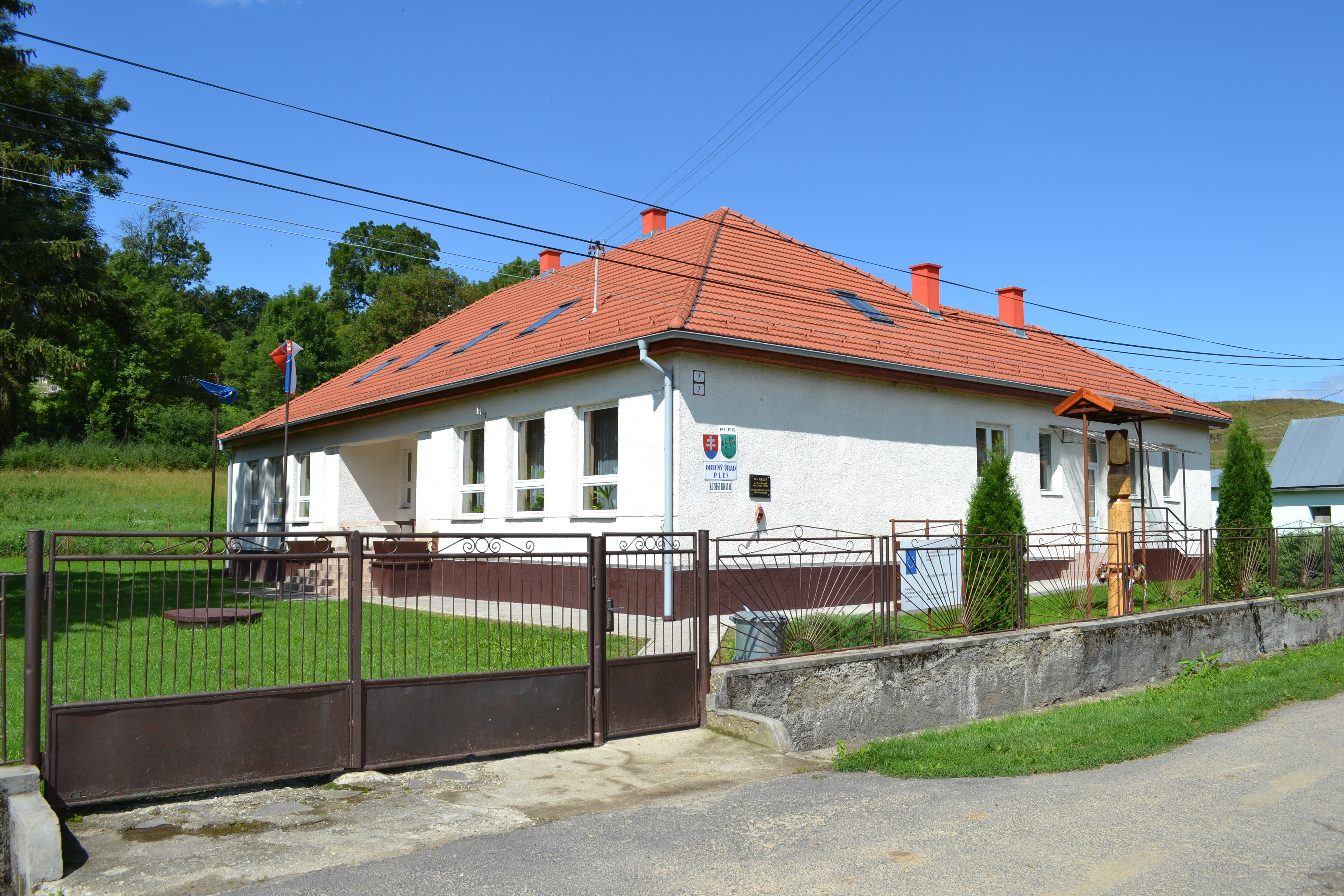 Municipal Office in the village PlešSlovenčina: Obecný úrad v Pleši